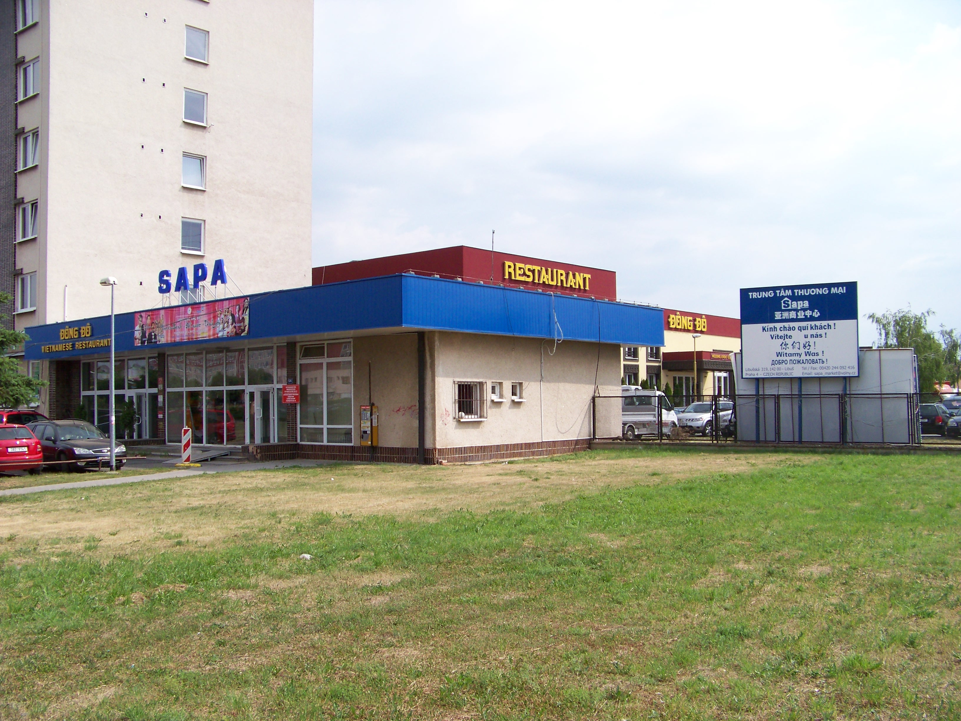 Prague-Písnice, the Czech Republic. Libušská 319/126, TTTM Sapa. - OpenStreetMap(Info)